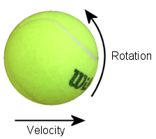 Illustration of backspin. Edited from Image:Tennis_ball.jpg